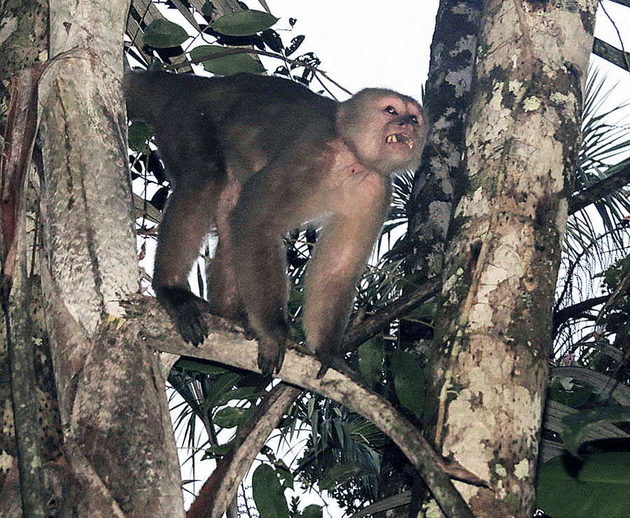 A White-fronted Capuchin bares its teeth as we approach on Lago Pilchicocha, Napo Valley, Ecuador. In context at